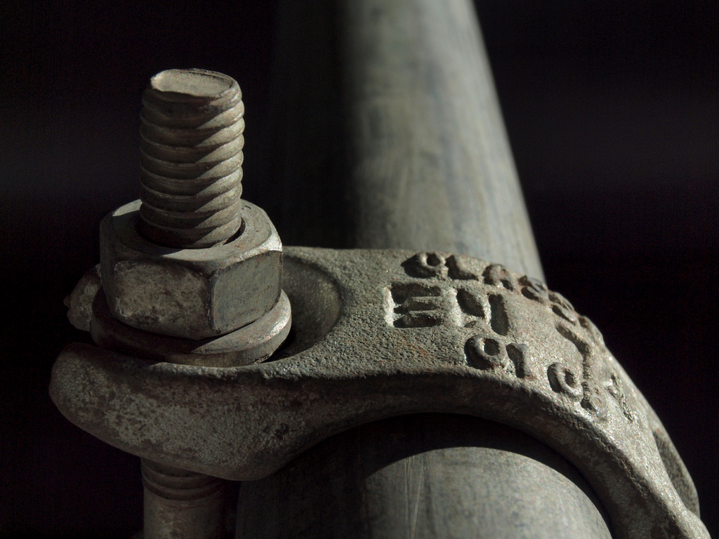 Bolt in the light.